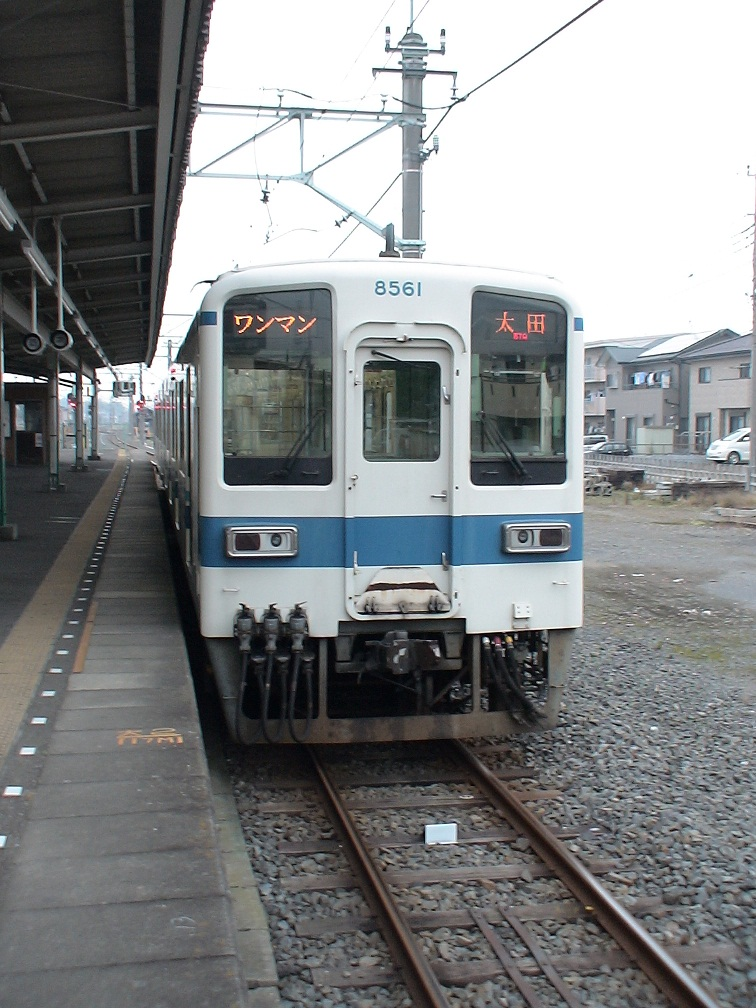 Tobu 8000 series EMU train under one-man operation on Koizumi Line, Tobu Railway, Japan